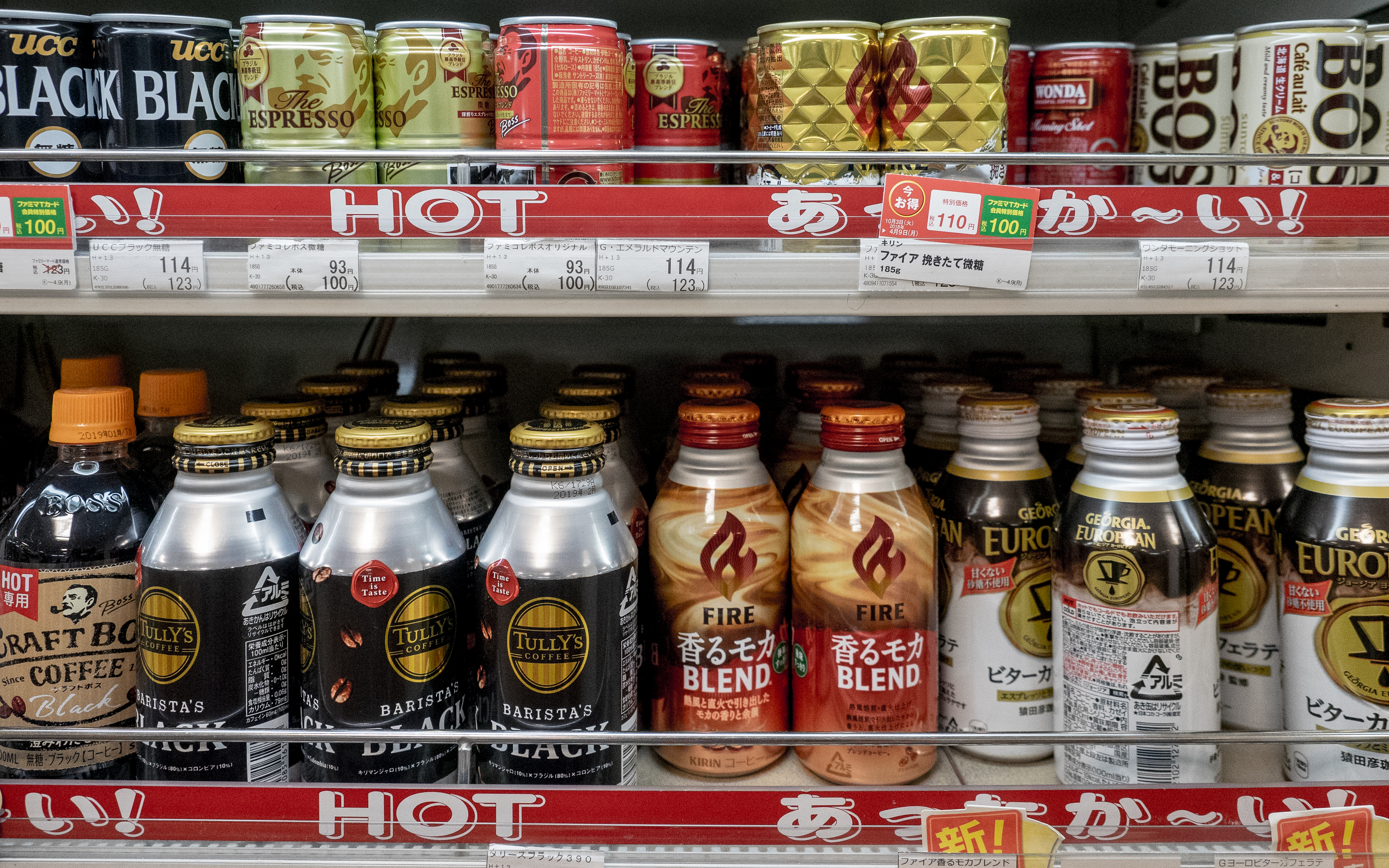 Japan is the leading consumer of canned coffee - hot, cold, and of course - FIRE Coffee